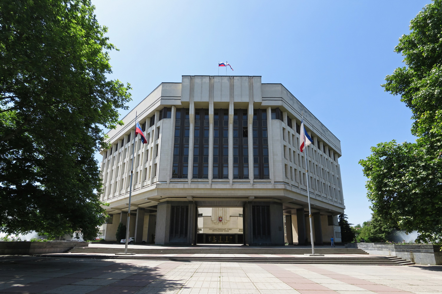 Simferopol, State Council of Crimea